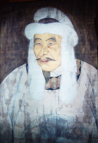 Jurchen Jin Empire's 1st Emperor